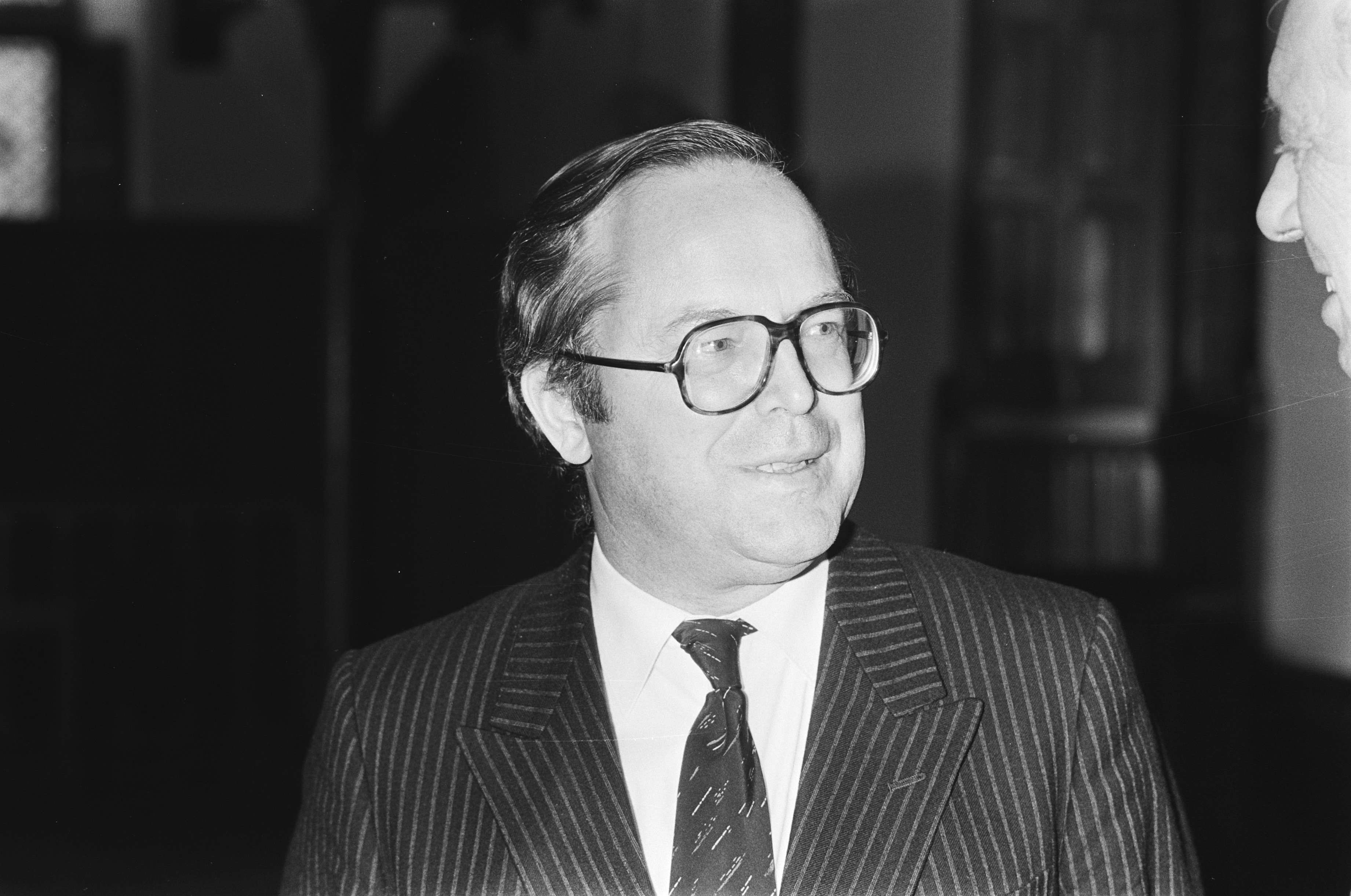 Wilfried Martens at the Benelux Interparliamentary Consultative Council in Den Haag, Netherlands.